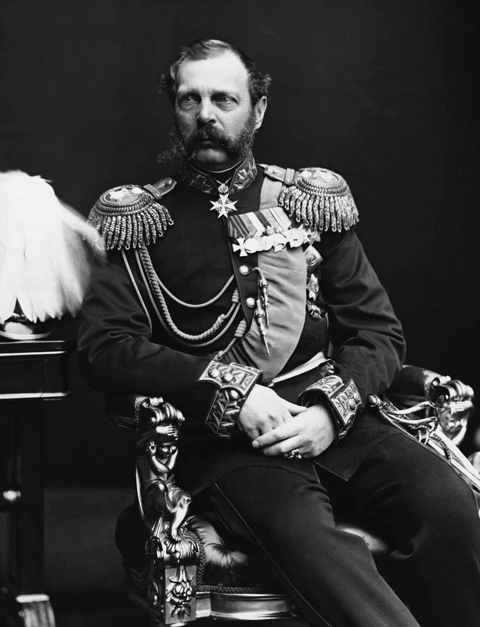 Photo of Russian emperor Alexander II